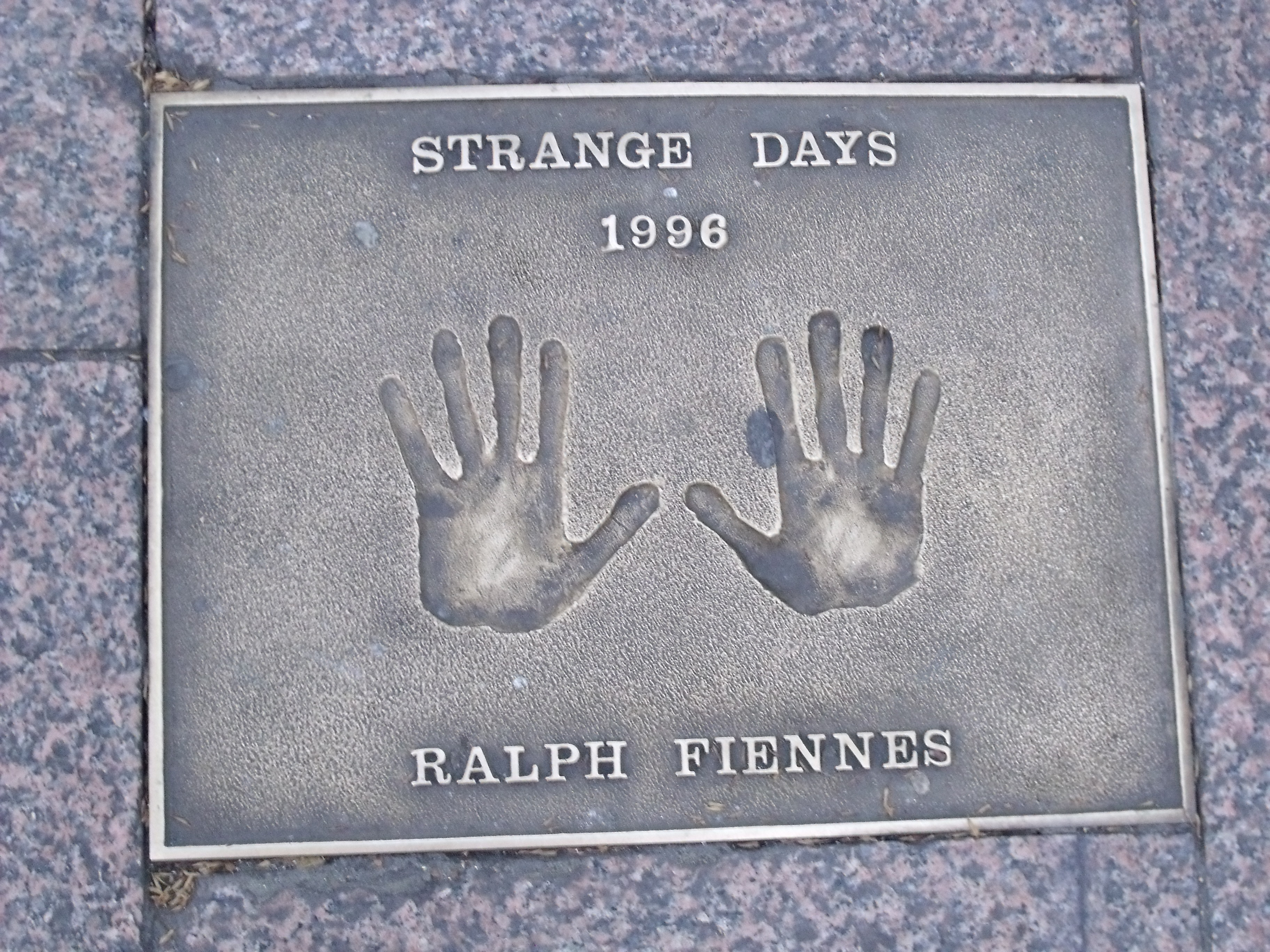 The area of London where UK film premieres take place. With loads of cinemas. Various hand prints in Leicester Square of various film stars. This one is from 1996 probably during the 1996 premiere on Strange Days. Handprints of Ralph Fiennes